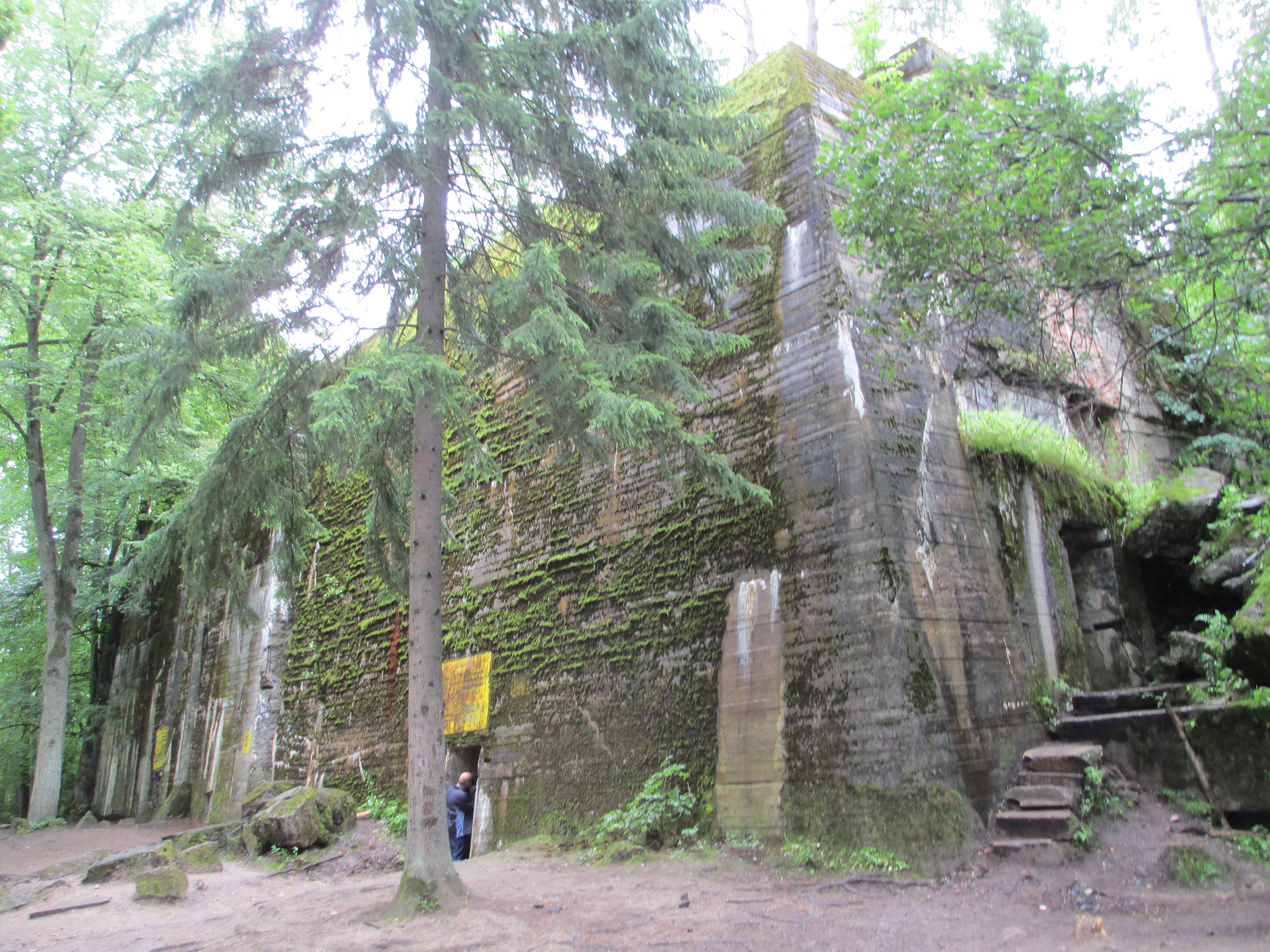 Remains of Hitler's bunker in Wolfsschanze (now Poland)